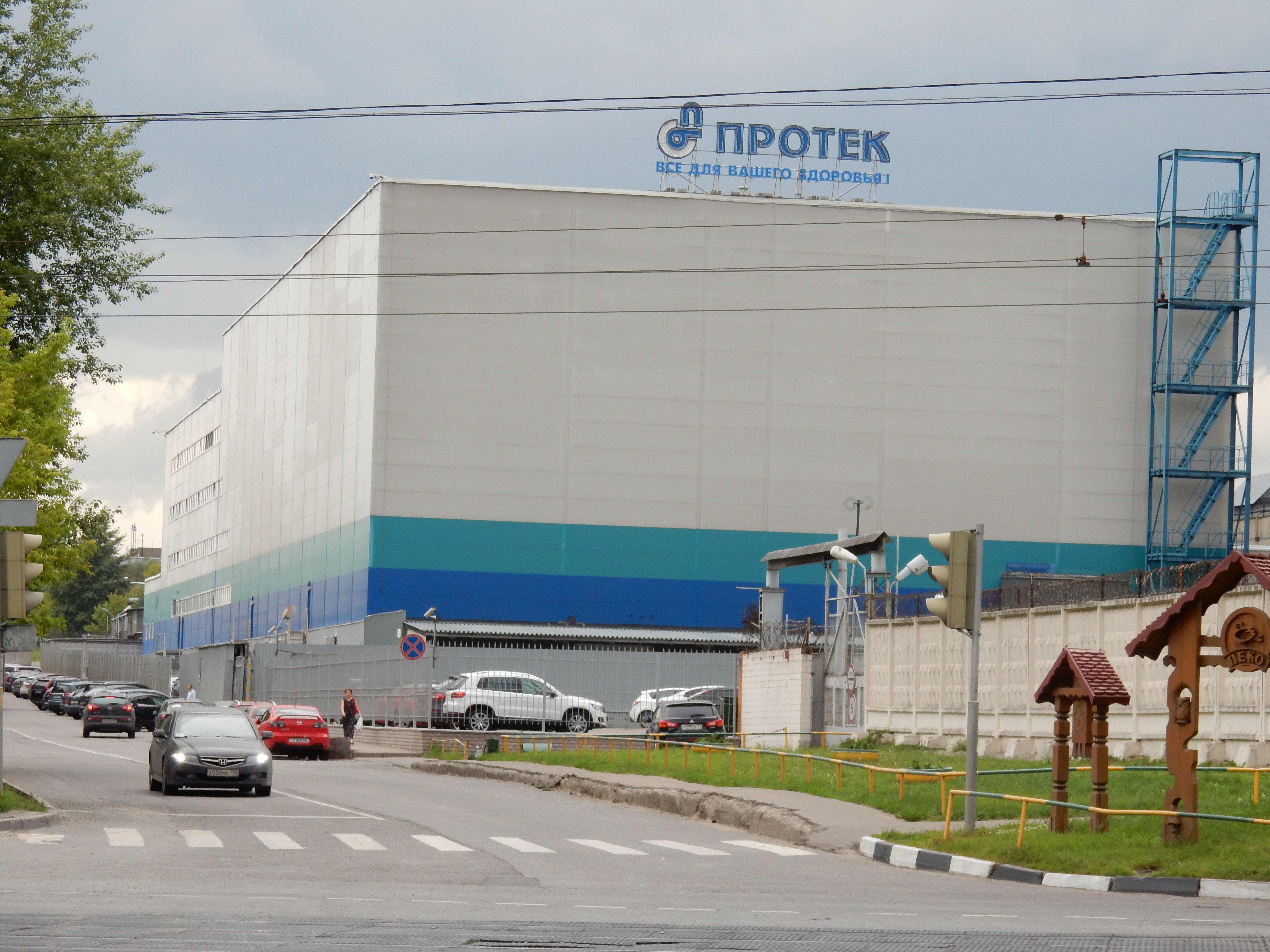 Moscow, Chermyanskaya Street 5. July 2014.